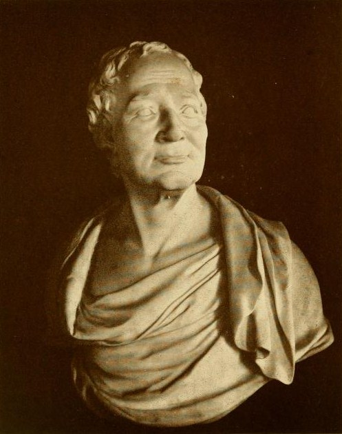 Bust of Thomas Prior (1680–1751), Irish economic writer. Photograph from Henry Fitz-Patrick Berry, A History of the Royal Dublin Society (1915).